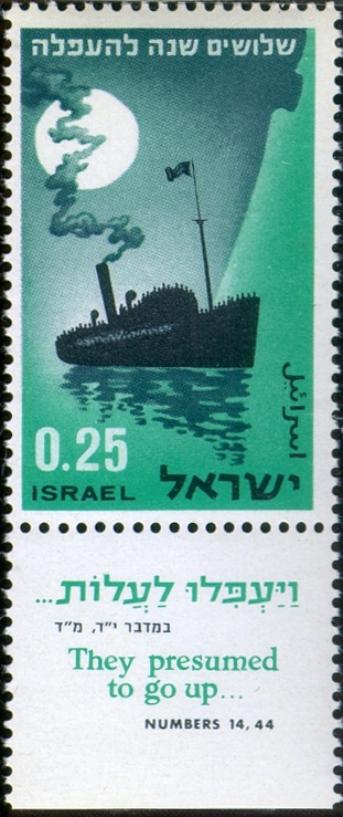 Stamp marking of immigration